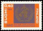 WHO 20 years anniversary